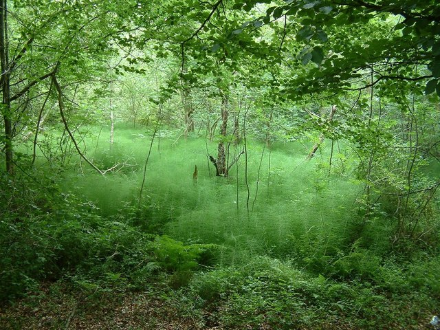 Spring, Widdenton Park Wood There is a strong spring-line in Widdenton Park Wood. This spring is dominated by horsetail, which gives an ethereal look.